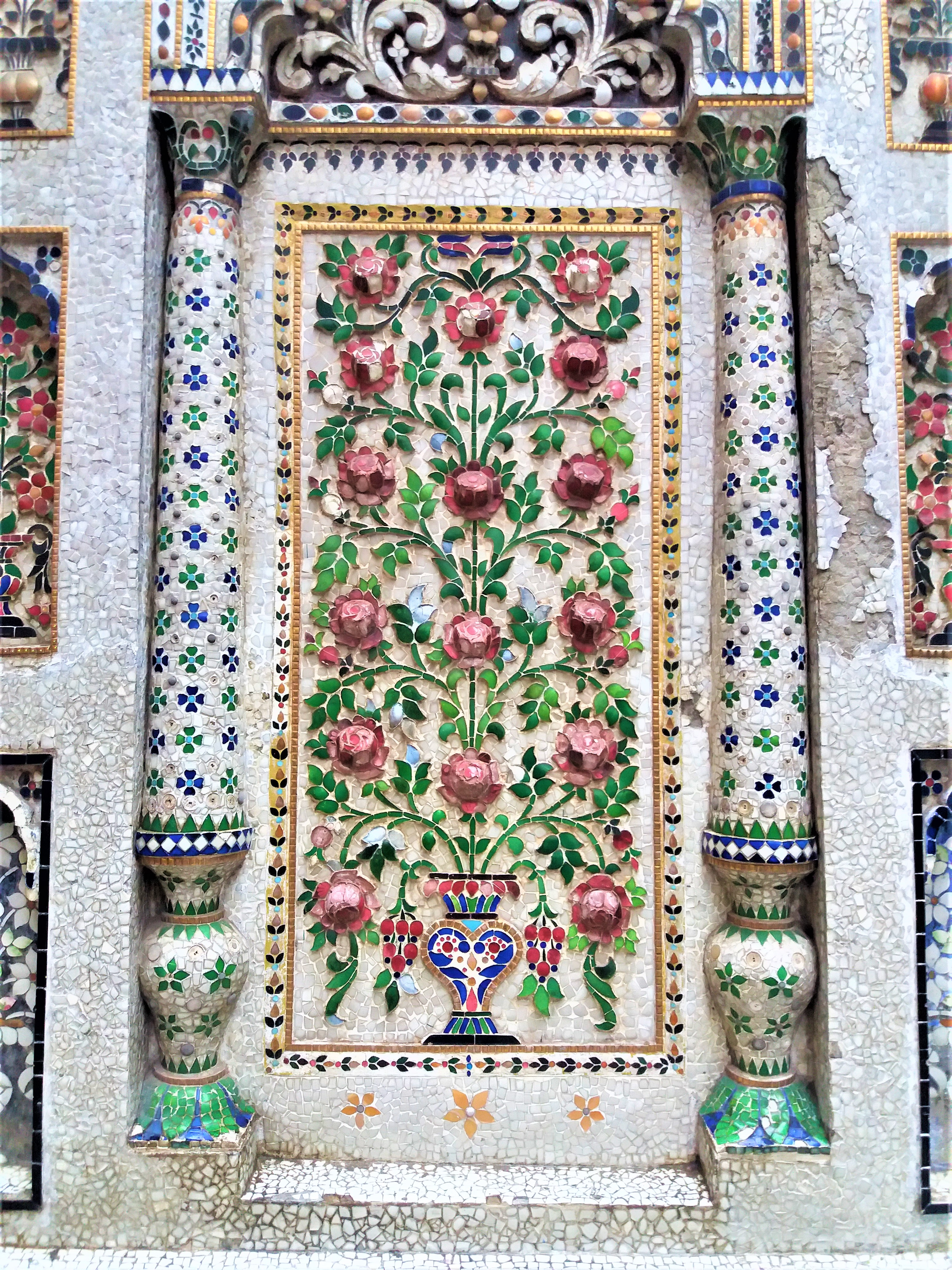 Qassabtuly Mosque, a decorative rose and leaves